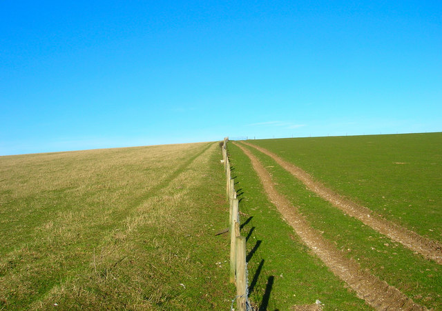 Boundary A physical and geographical boundary here, the fence marks the separation of the two fields as well as that of two district councils; Mid Sussex administers the land on the left and Lewes that on right. The footpath from Lower Standean to Keymer Post lies in the realm of MId Sussex.